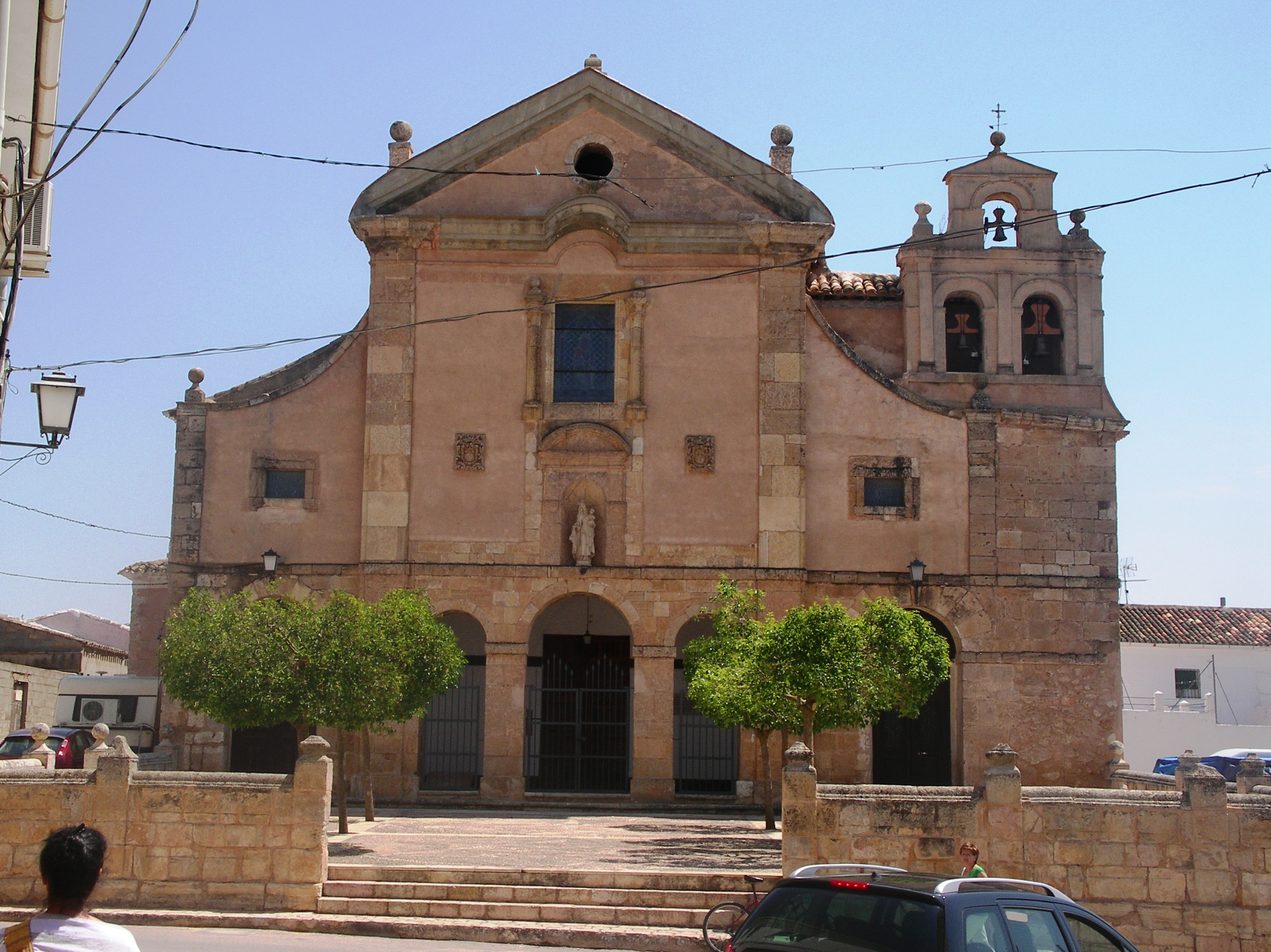 Convent d'El Carmen de Villanueva de la Jara.